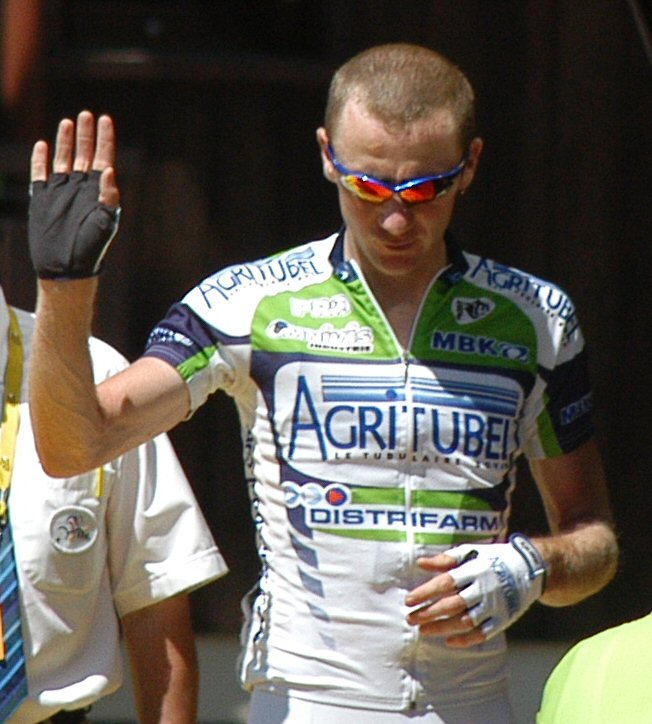 Nicolas Jalabert at the start of stage 8 in Le Grand Bornand, Tour de France 2007.